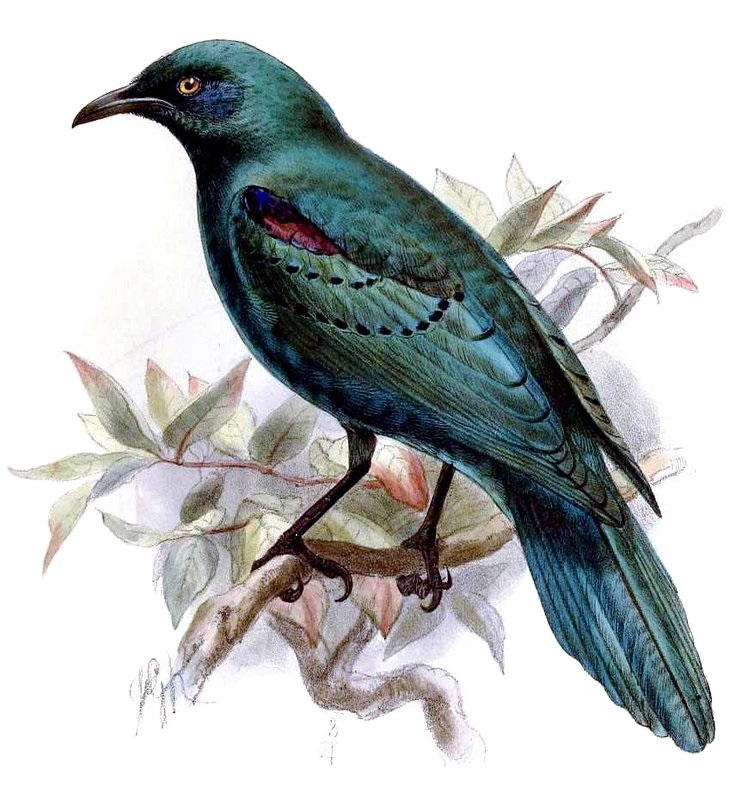 Sharp-tailed Starling (Lamprotornis acuticaudus)- Ornithologie d'Angola. Ouvrage publié sous les auspices du Ministere de la Marine et des Colonies